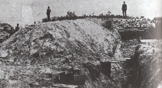 Fort McRee (Florida) Water Battery